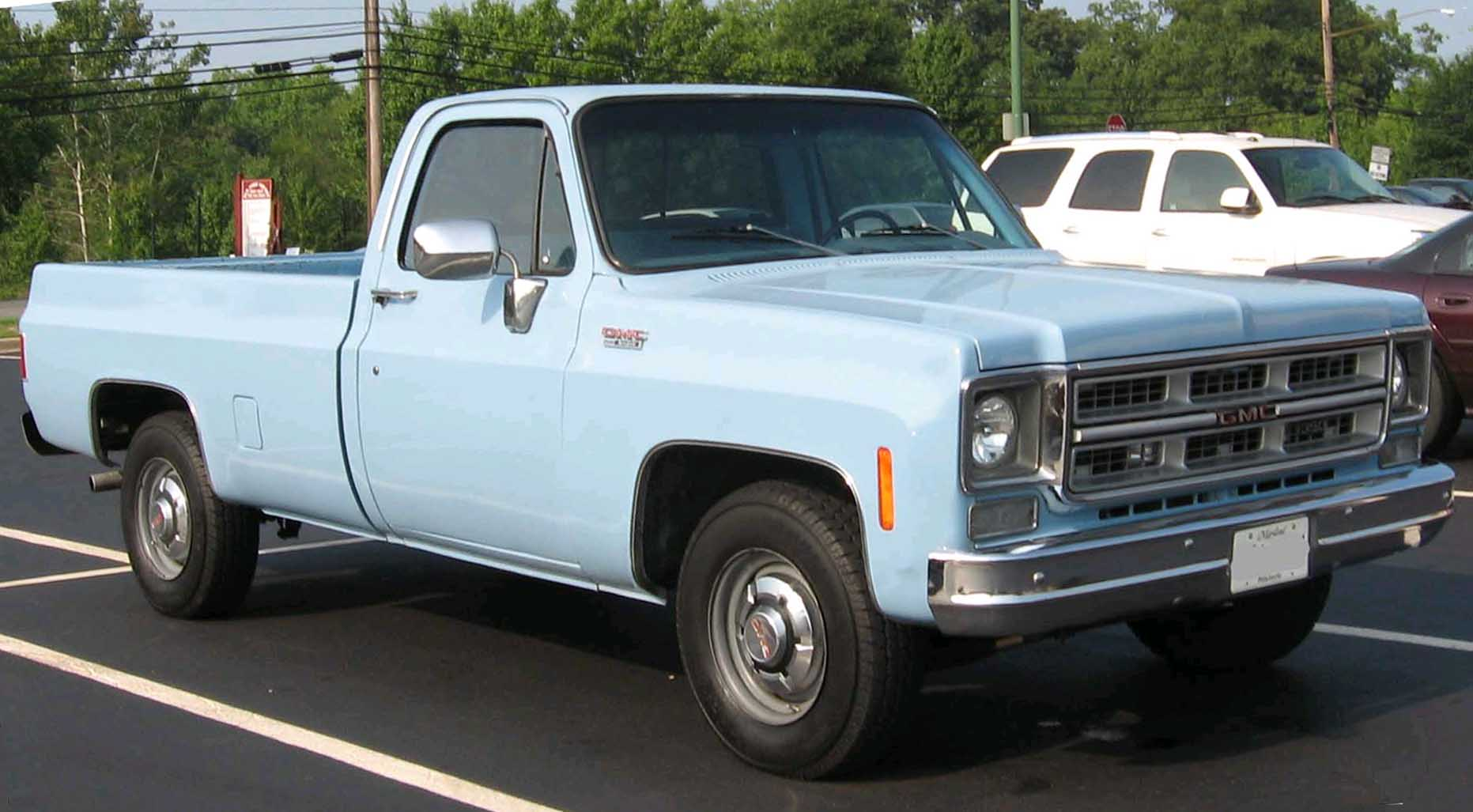 1975-1976 GMC C/K photographed in USA.